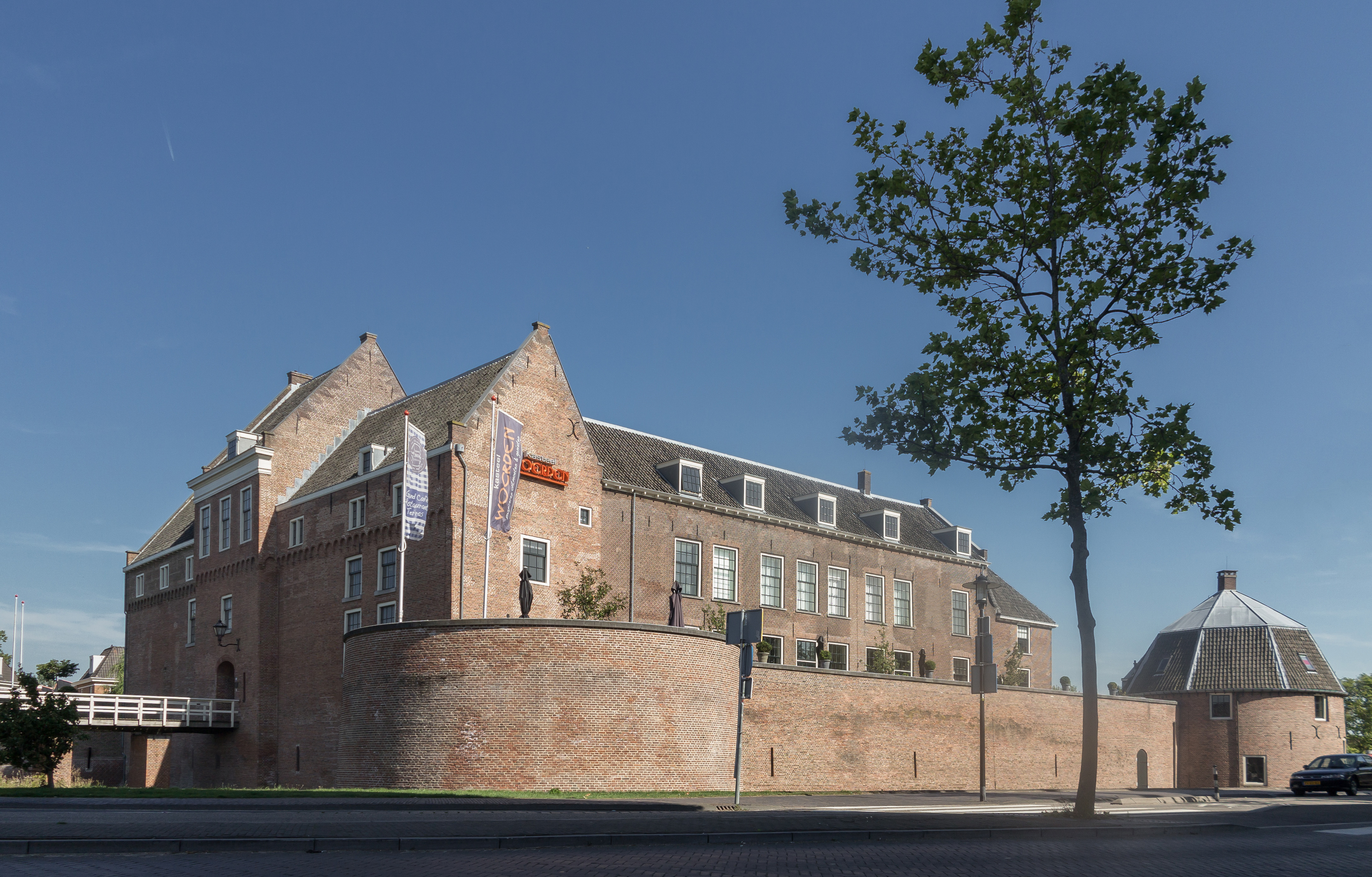 Woerden, castle Kasteel Woerden